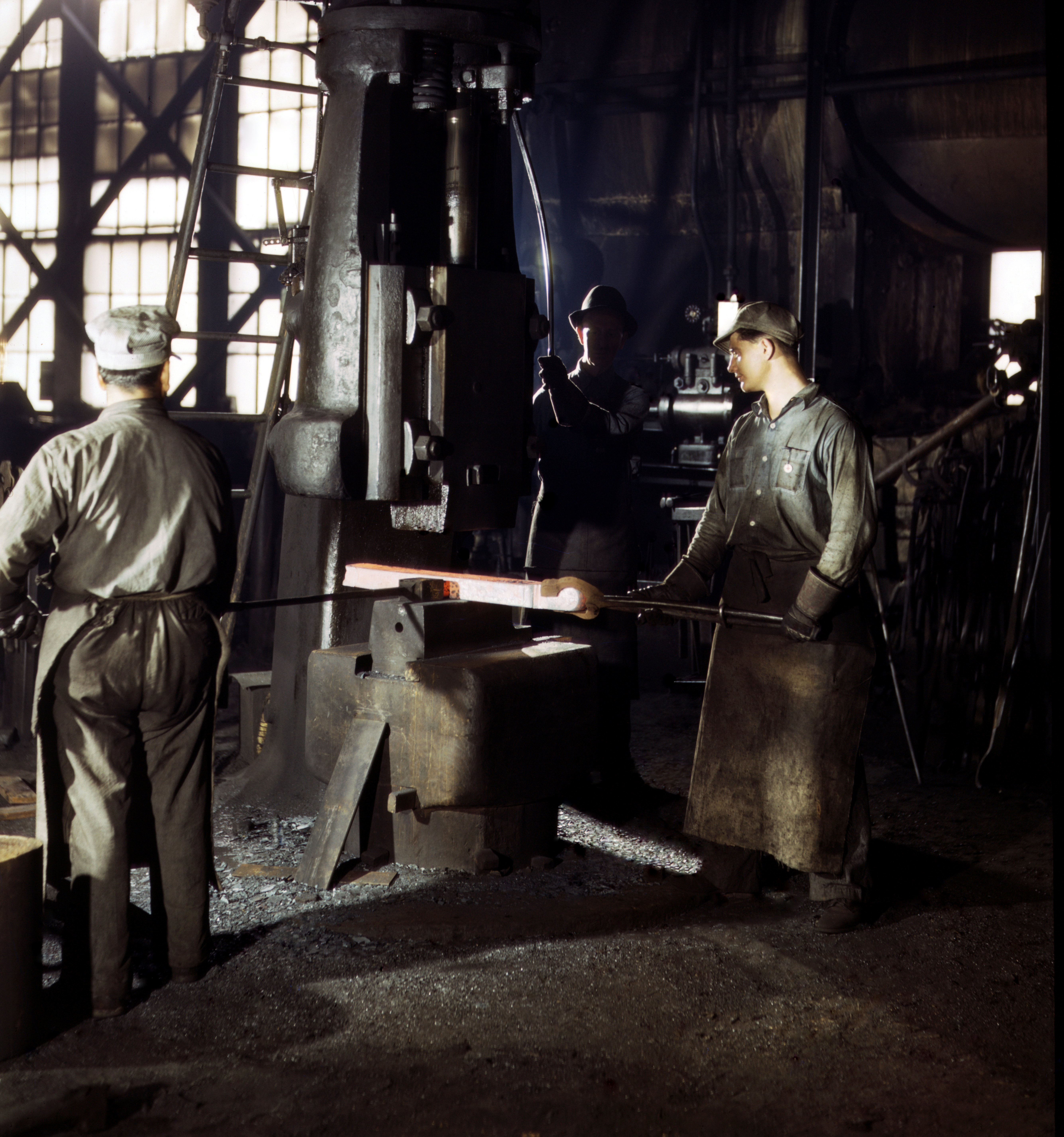 Working with a small steam drop hammer at the blacksmith shop. Atchison, Topeka and Santa Fe Railway shops located in Topeka, Kansas, US.